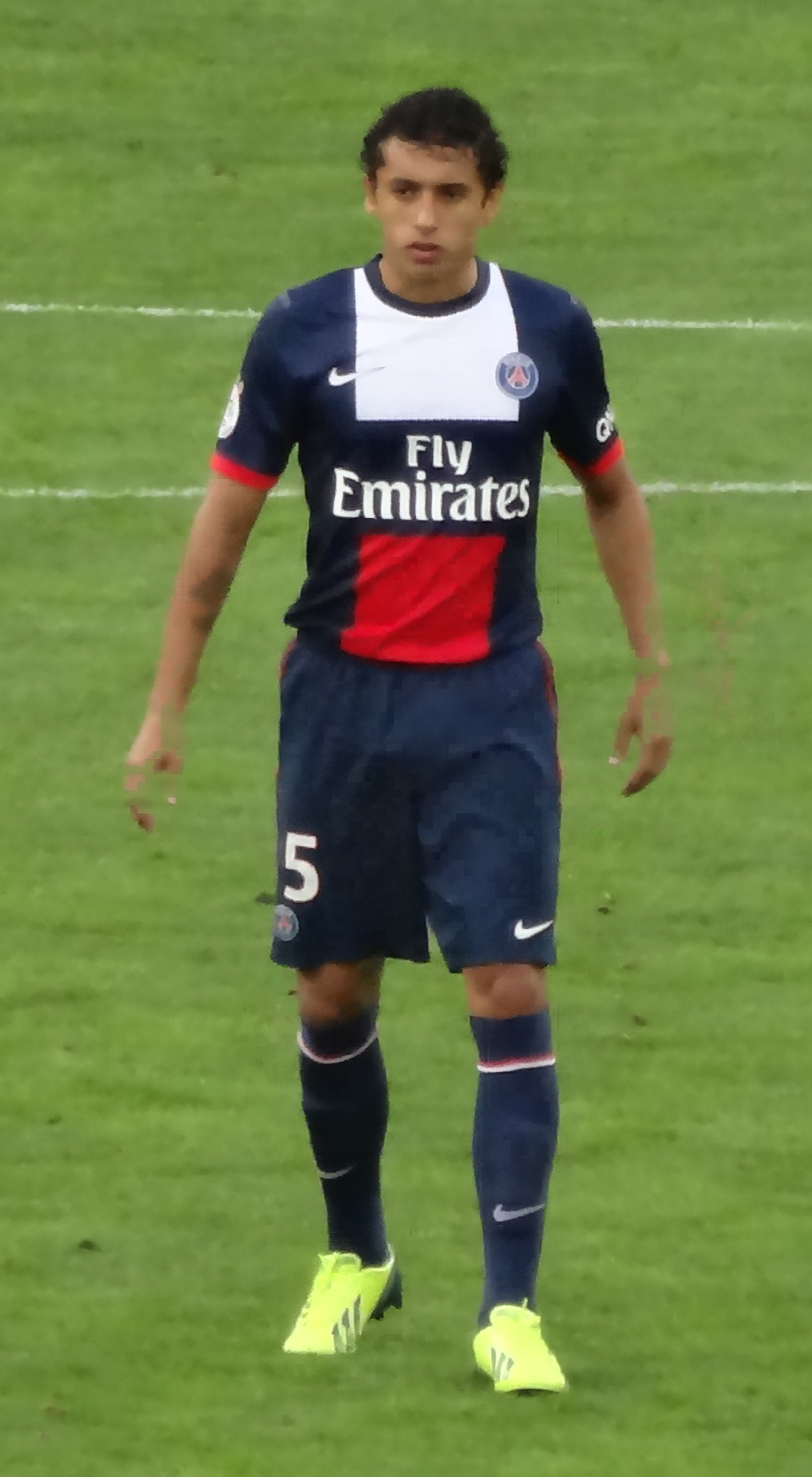 Marquinhos (Marcos Aoás Corrêa), PSG